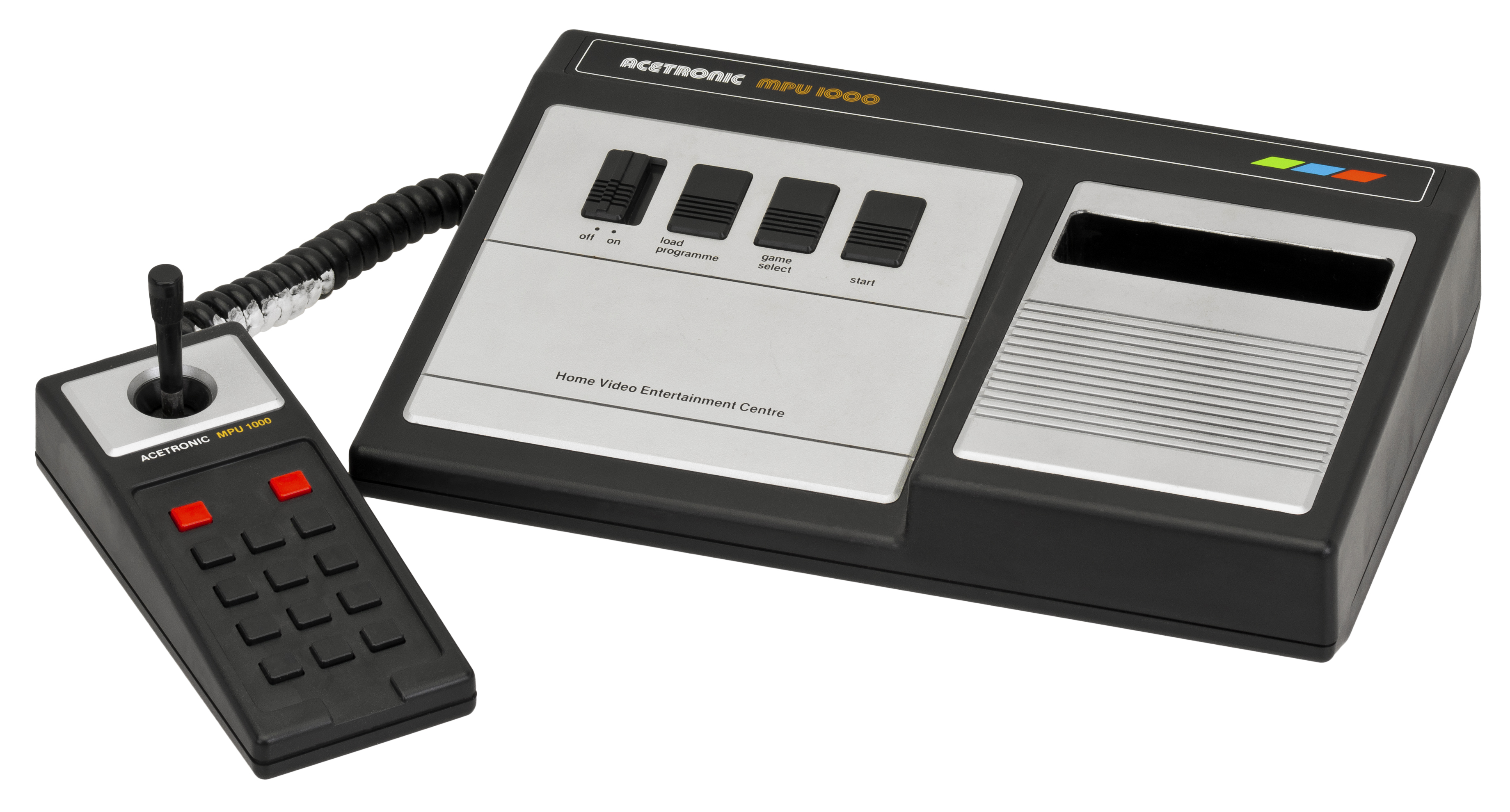 The Acetronic MPU 1000, a video game console that was a part of the 1292 Advanced Programmable Video System family. Note that the white on the controller cord is styrofoam that melded to the cord in the box.